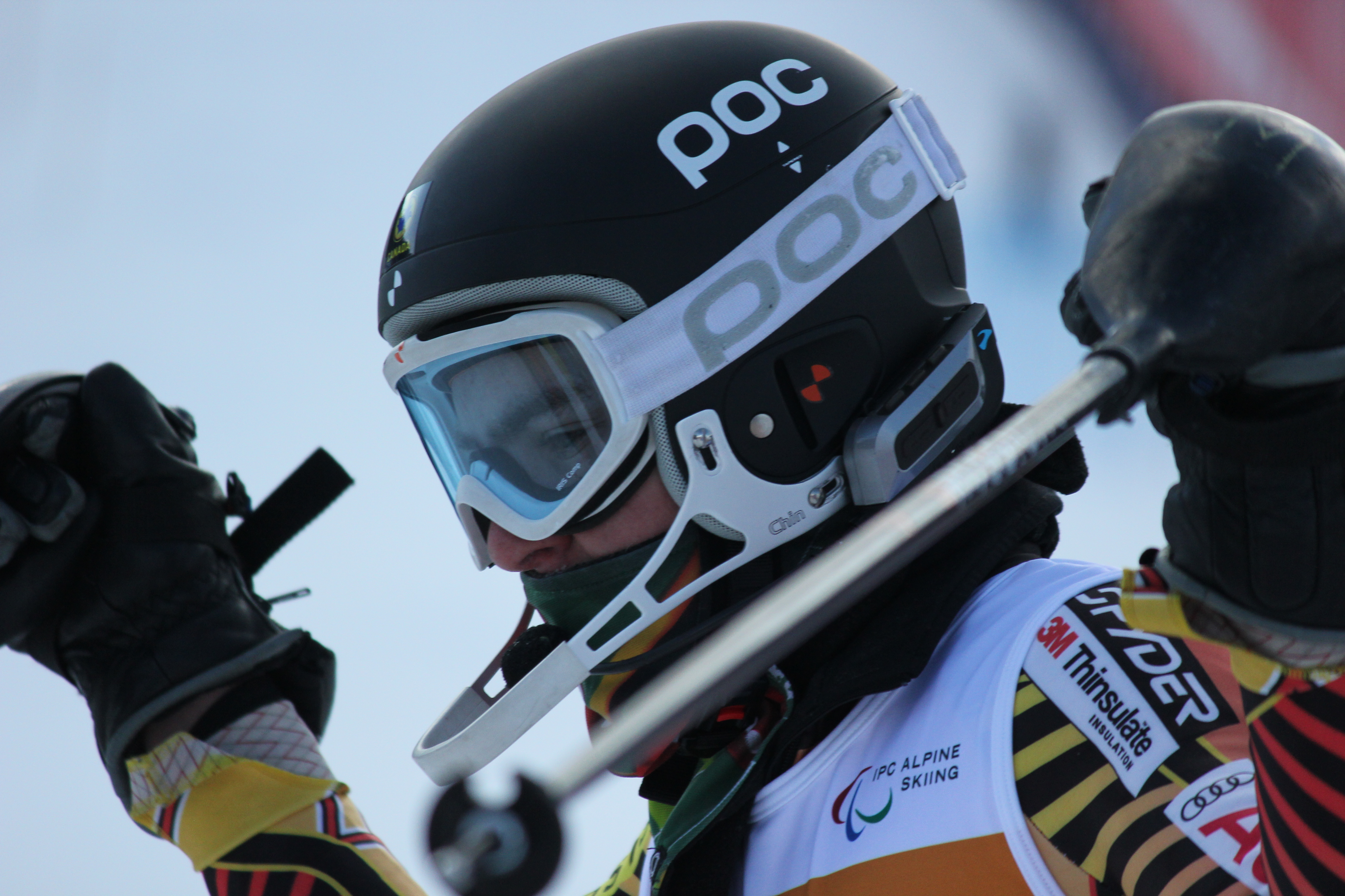 Mac Marcoux of Canada. 2013 IPC Alpine World Championships at La Molina in Spain. Day 3 of competition. Slalom final.